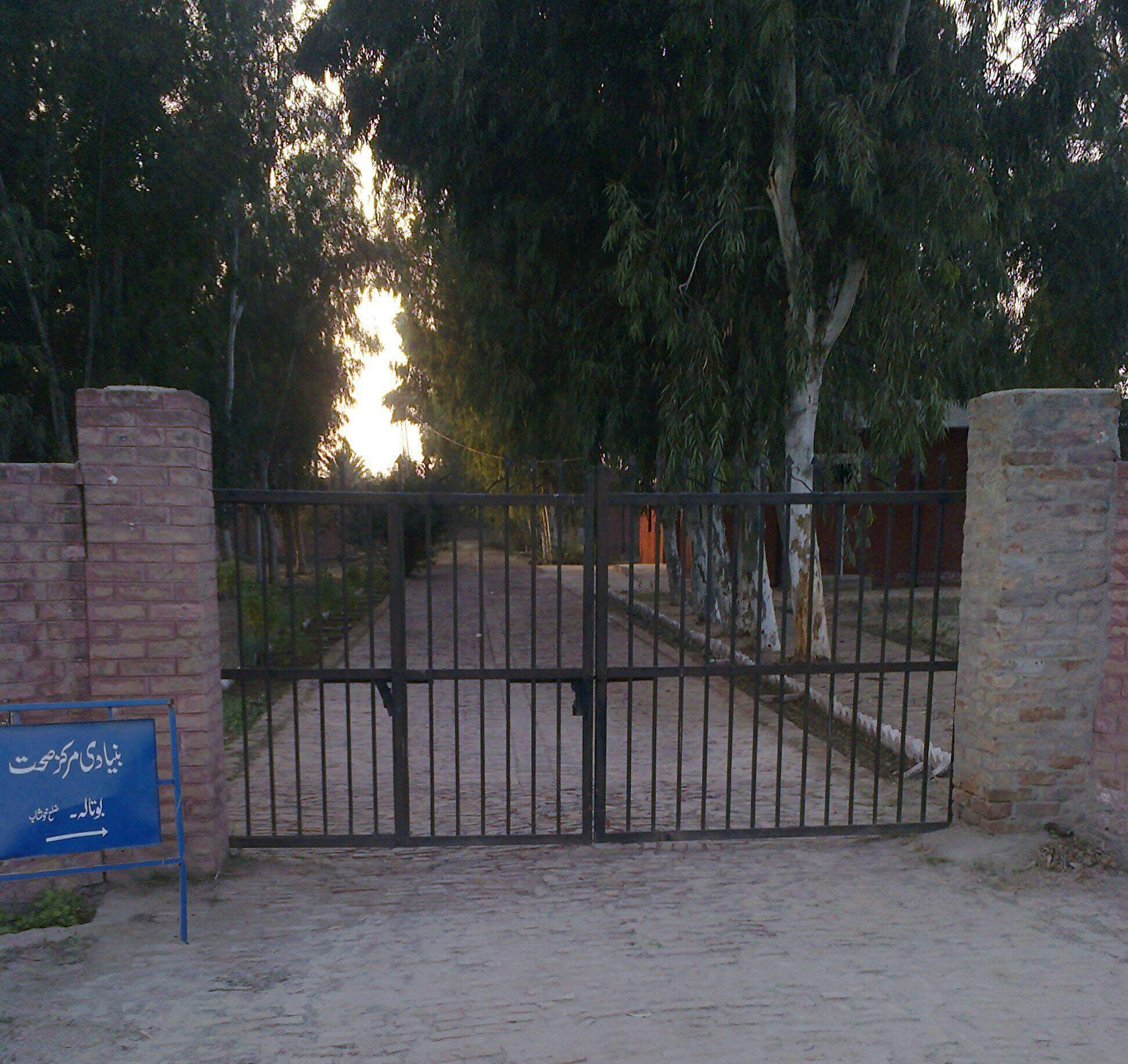 I also Uploaded this Photo on Botala Facebook Page & on website